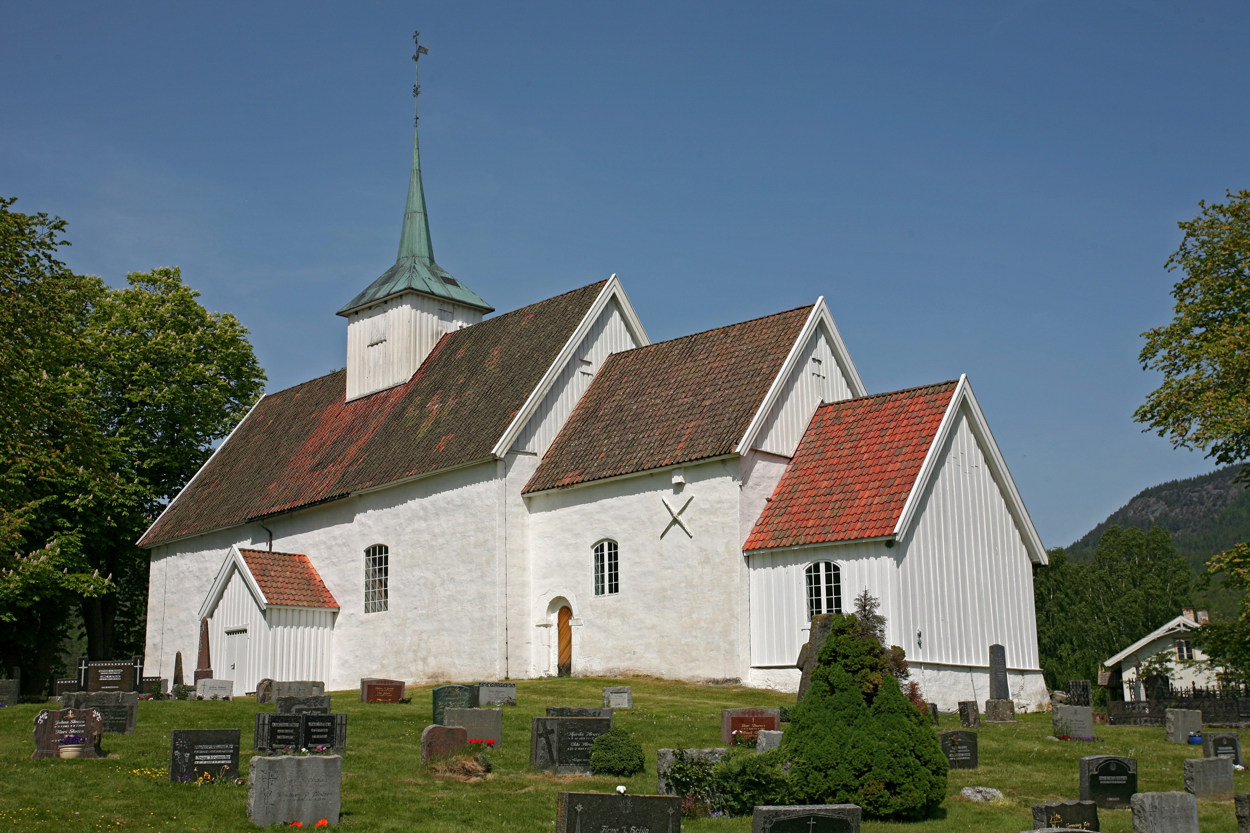 Picture of Sauherad church (Telemark - Norway)